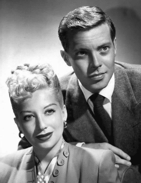 Photo of Helen Forrest and Dick Haymes at the start of Haymes' CBS Radio program. Forrest was a regular on the show.